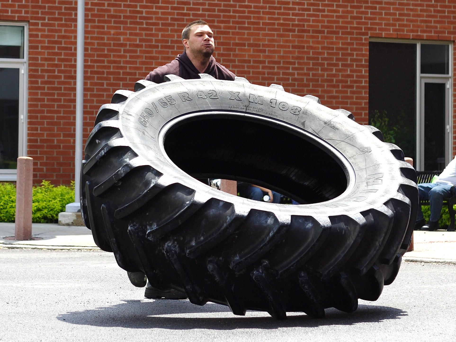 Strongmen event: the Tire Flip (by Paul Vaillancourt).